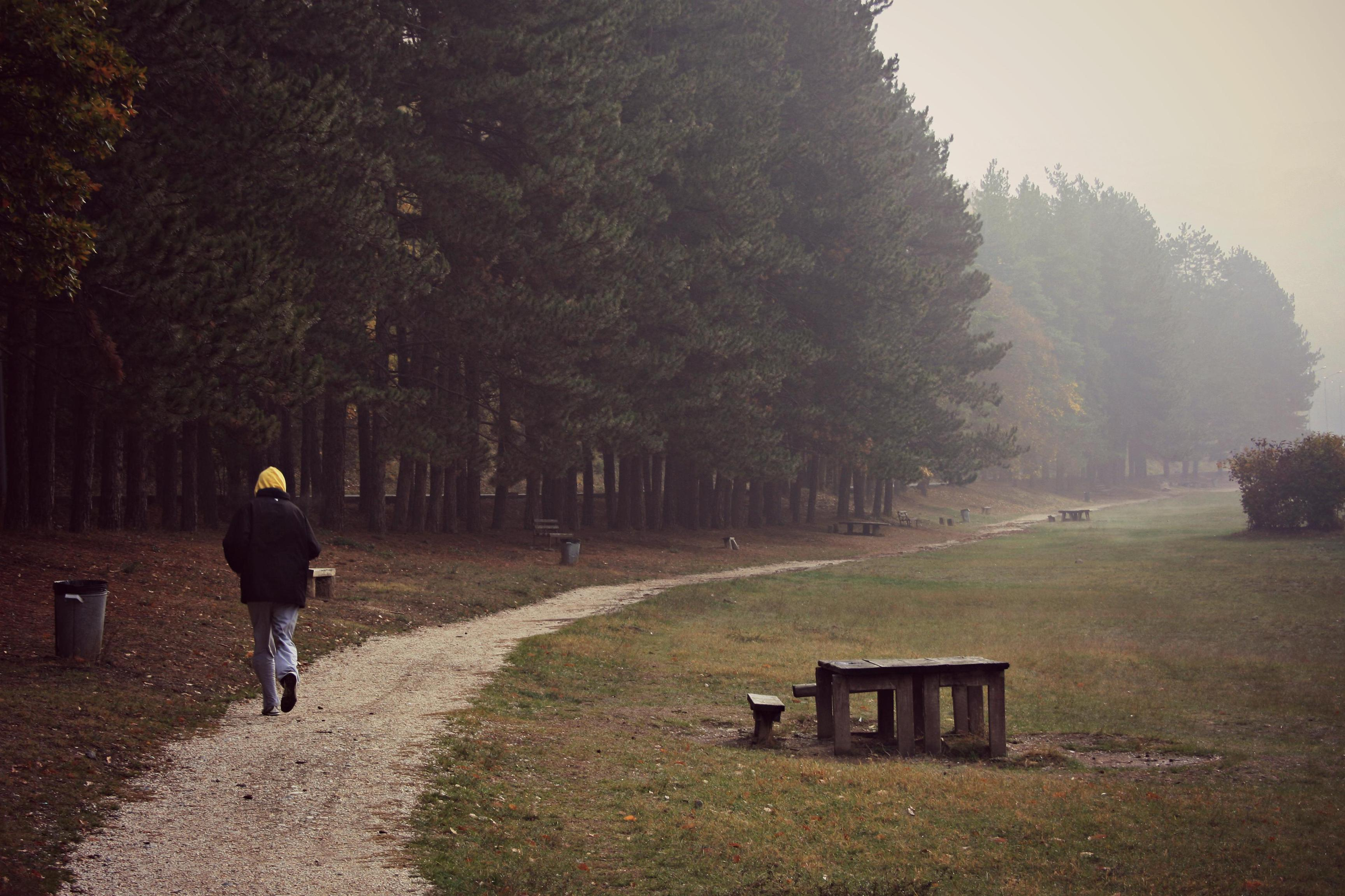 Parku Germia, Prishtinë. Vend ku ushtrohen gjitha llojet e sporteve...